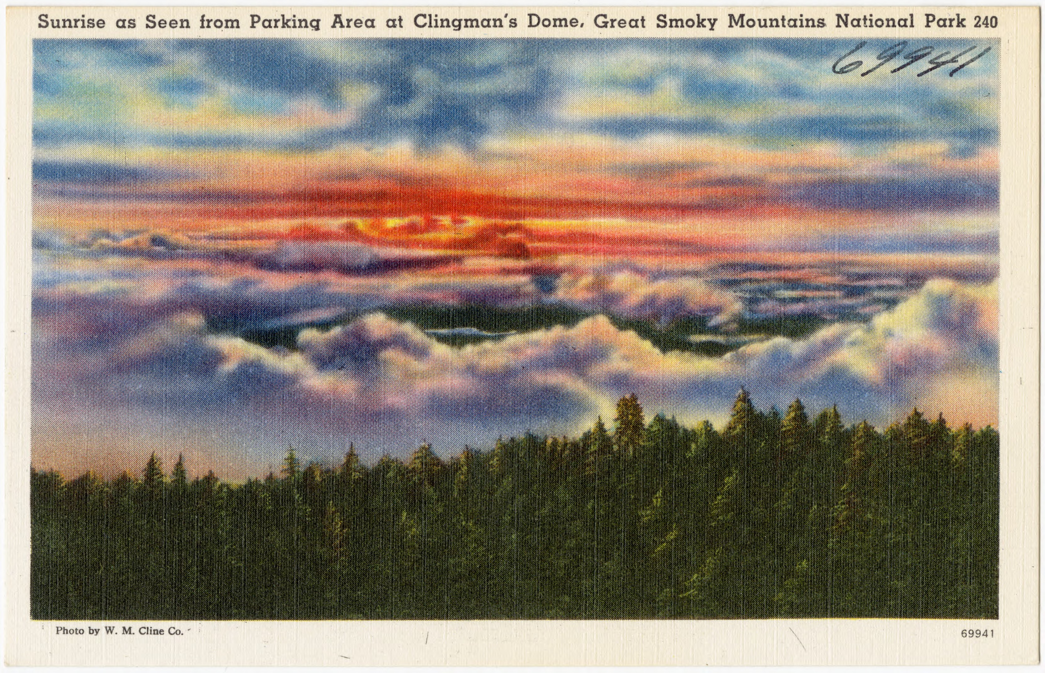 Title: Sunrise as seen from parking area at Clingman's Dome, Great Smoky Mountains National Park Subjects: Parks Places: Great Smoky Mountains Notes: Title from item. Extent: 1 print (postcard) : linen texture, color ; 3 1/2 x 5 1/2 in. Accession #: 06_10_019463